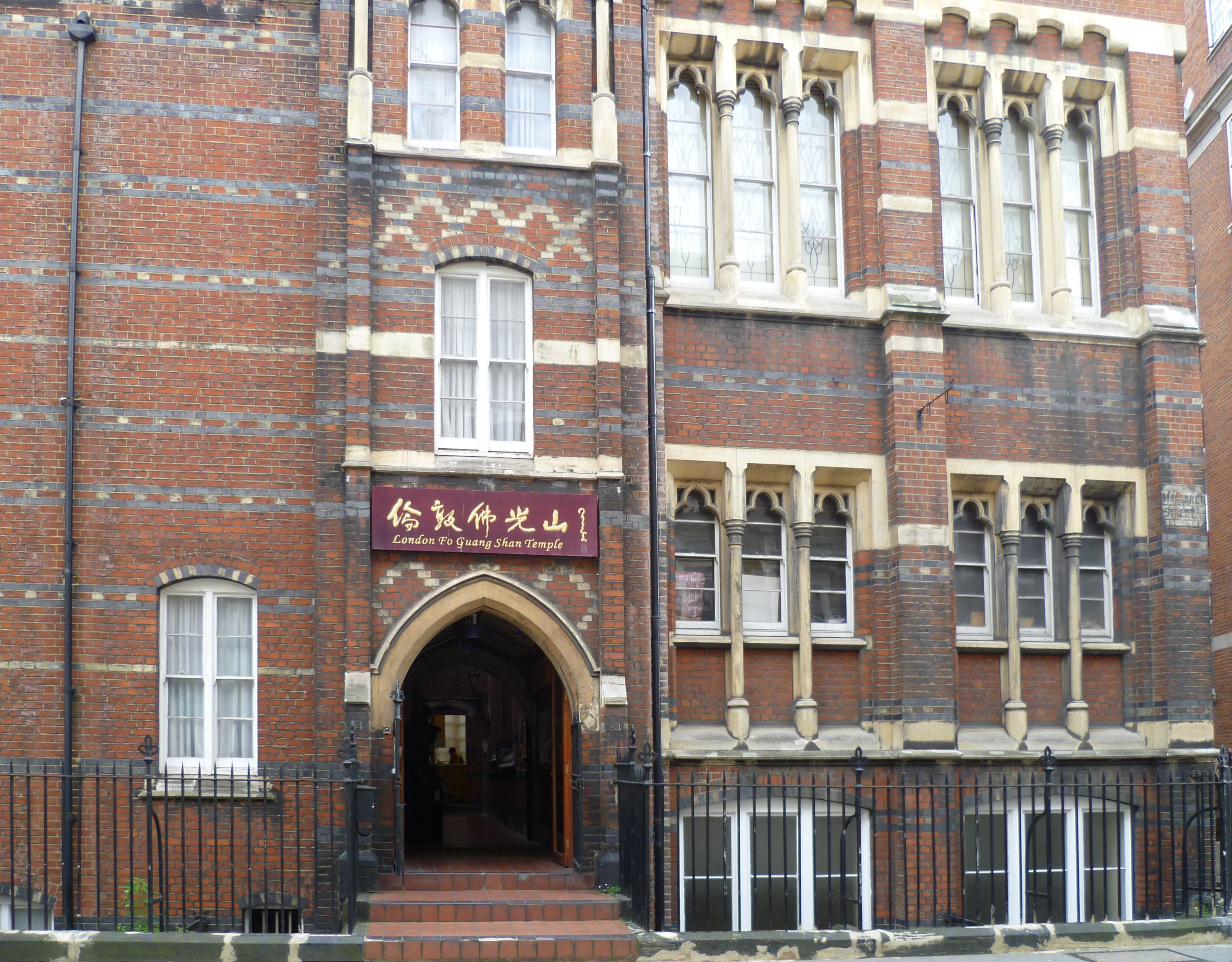 London Fo Guang Shan Temple